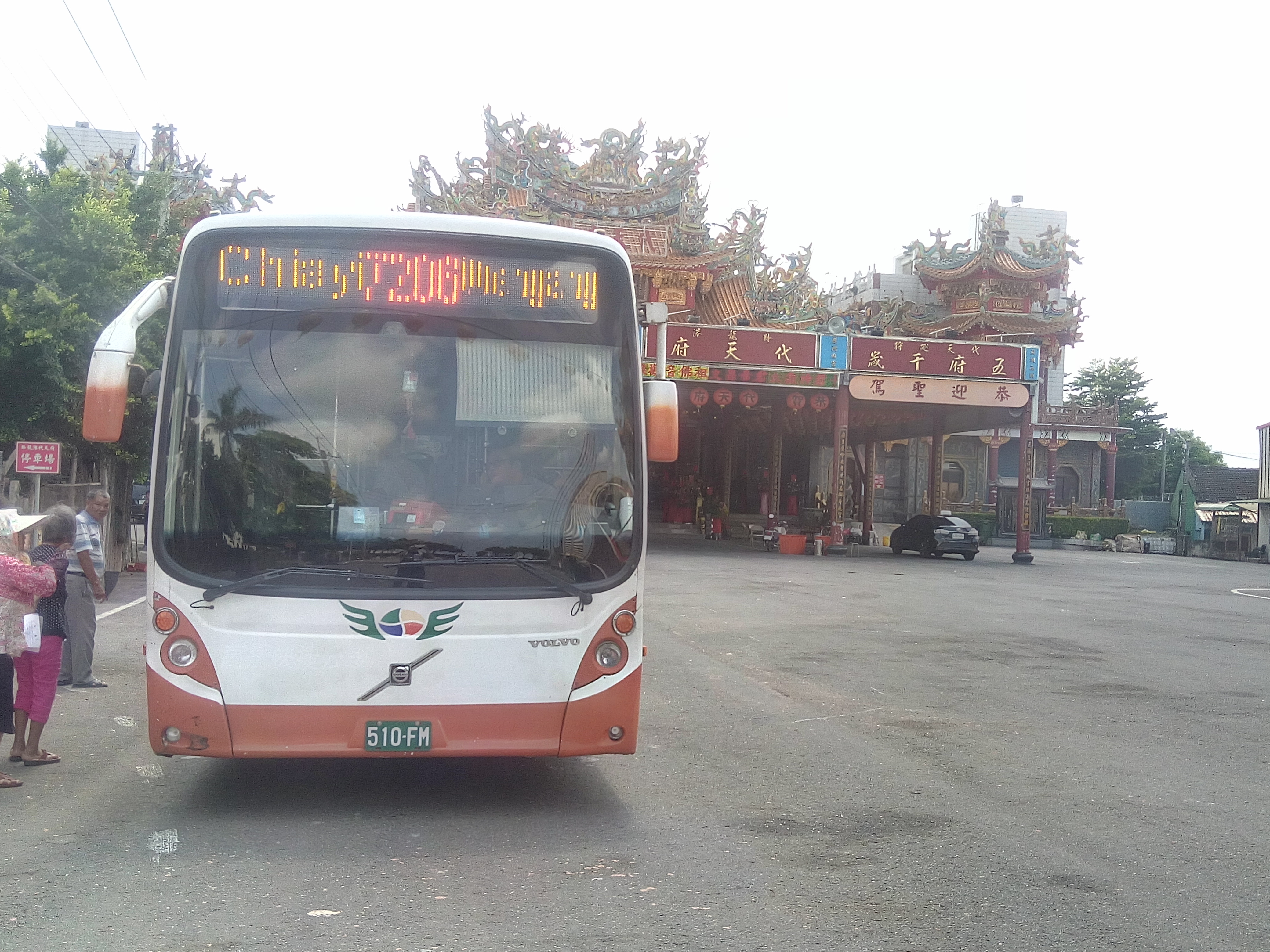 Volvo B7RLE of Chiayi Bus 510-FM stops at Taitianfu